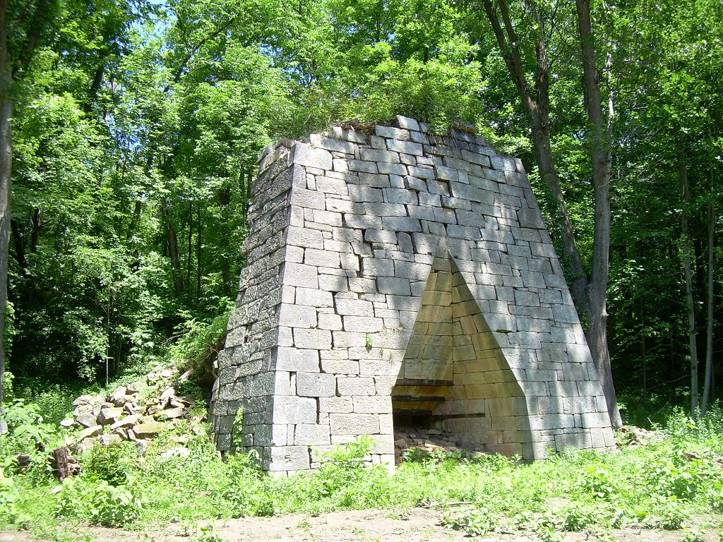 1847 iron furnace Indiana County, Pennsylvania